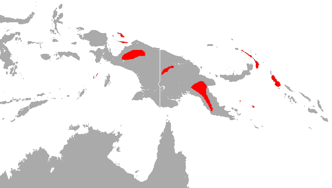 Beccari's Sheath-Tailed Bat (Emballonura beccarii) range, with the Indonesia-New Guinea border included